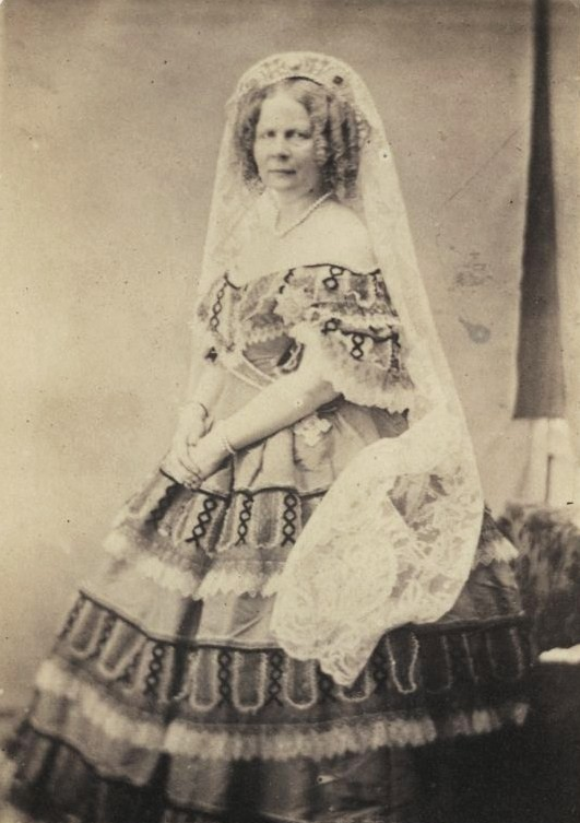 The Grand Duchess Helena of Russia